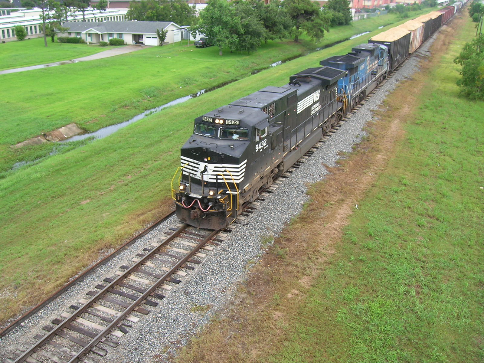 Norfolk Southern Engine along KCS rail.